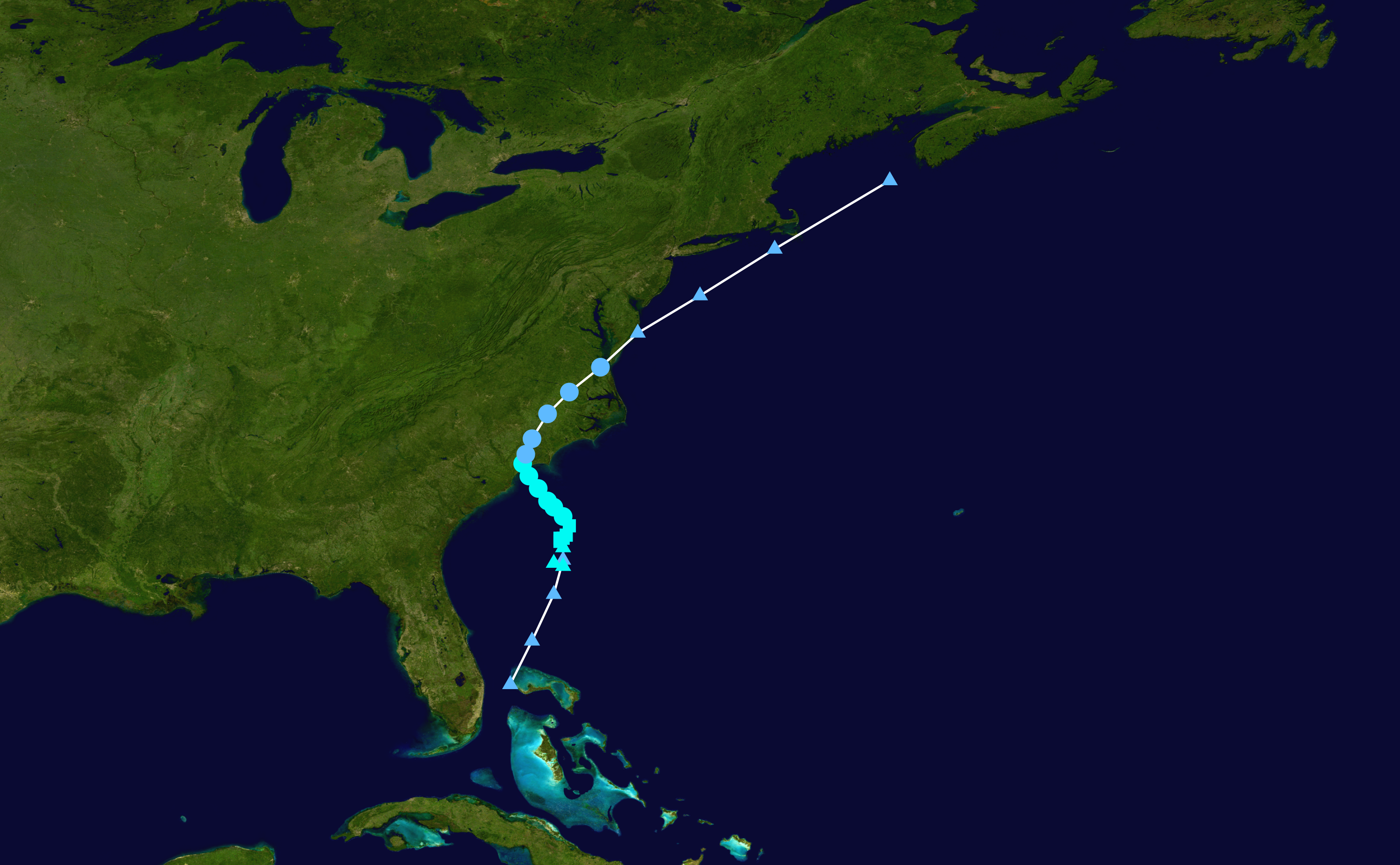 Track map of Tropical Storm Ana of the 2015 Atlantic hurricane season. The points show the location of the storm at 6-hour intervals. The colour represents the storm's maximum sustained wind speeds as classified in the Saffir–Simpson scale (see below), and the shape of the data points represent the nature of the storm, according to the legend below. Saffir–Simpson scale Tropical depression≤38 mph≤62 km/h Category 3111–129 mph178–208 km/h Tropical storm39–73 mph63–118 km/h Category 4130–156 mph209–251 km/h Category 174–95 mph119–153 km/h Category 5≥157 mph≥252 km/h Category 296–110 mph154–177 km/h Unknown Storm type Tropical cyclone Subtropical cyclone Extratropical cyclone / Remnant low / Tropical disturbance / Monsoon depression